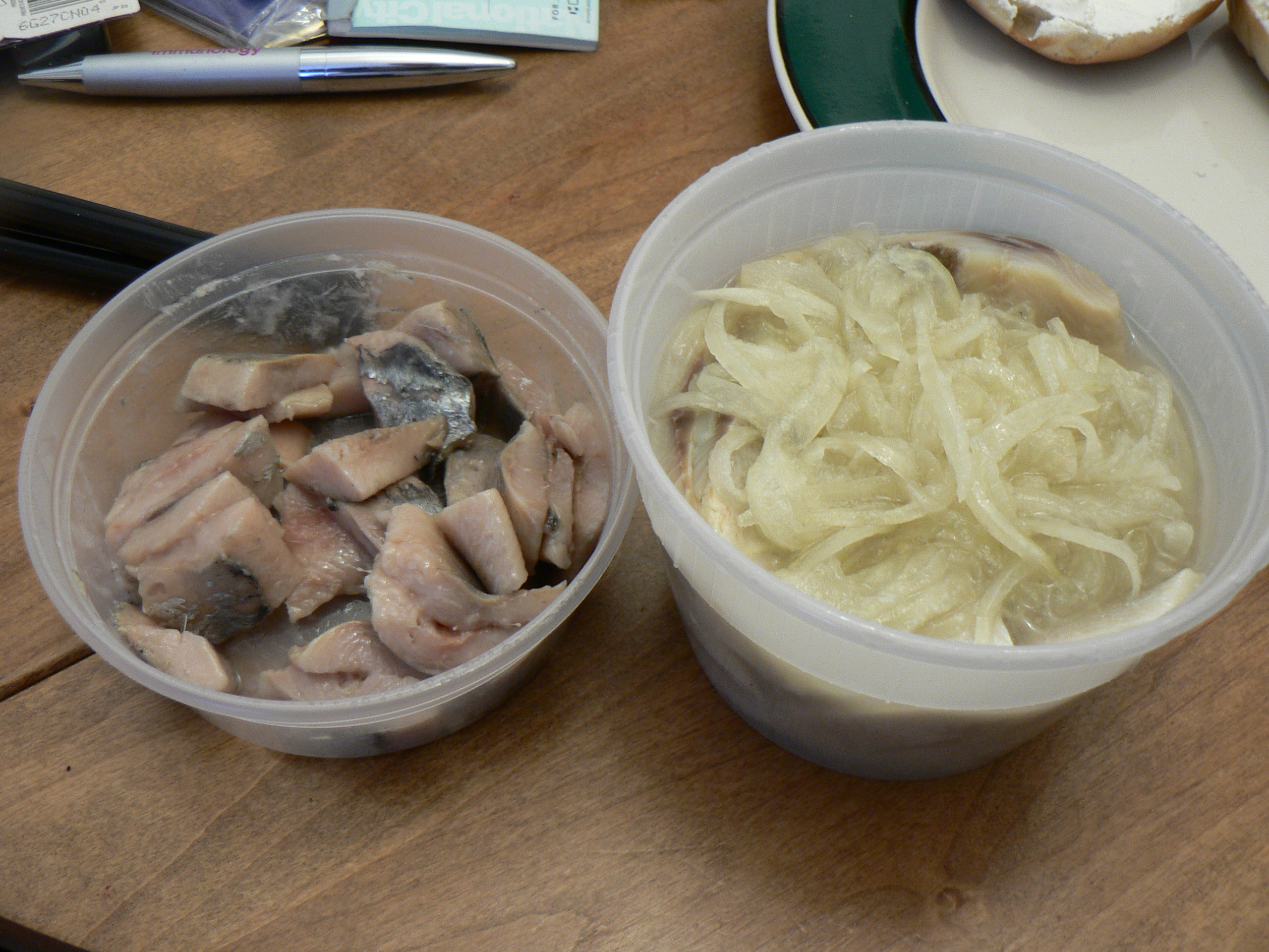 Sour herring